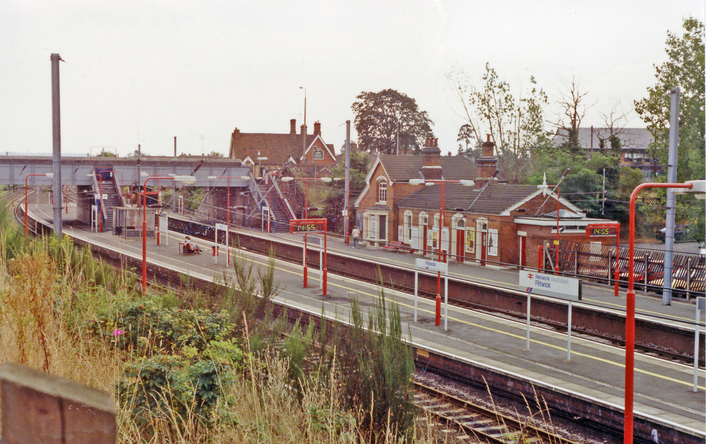 Flitwick station. View southward, towards London St Pancras: ex-Midland - London - Leicester - Sheffield etc. main line, electrified St Pancras - Bedford by March 1983.